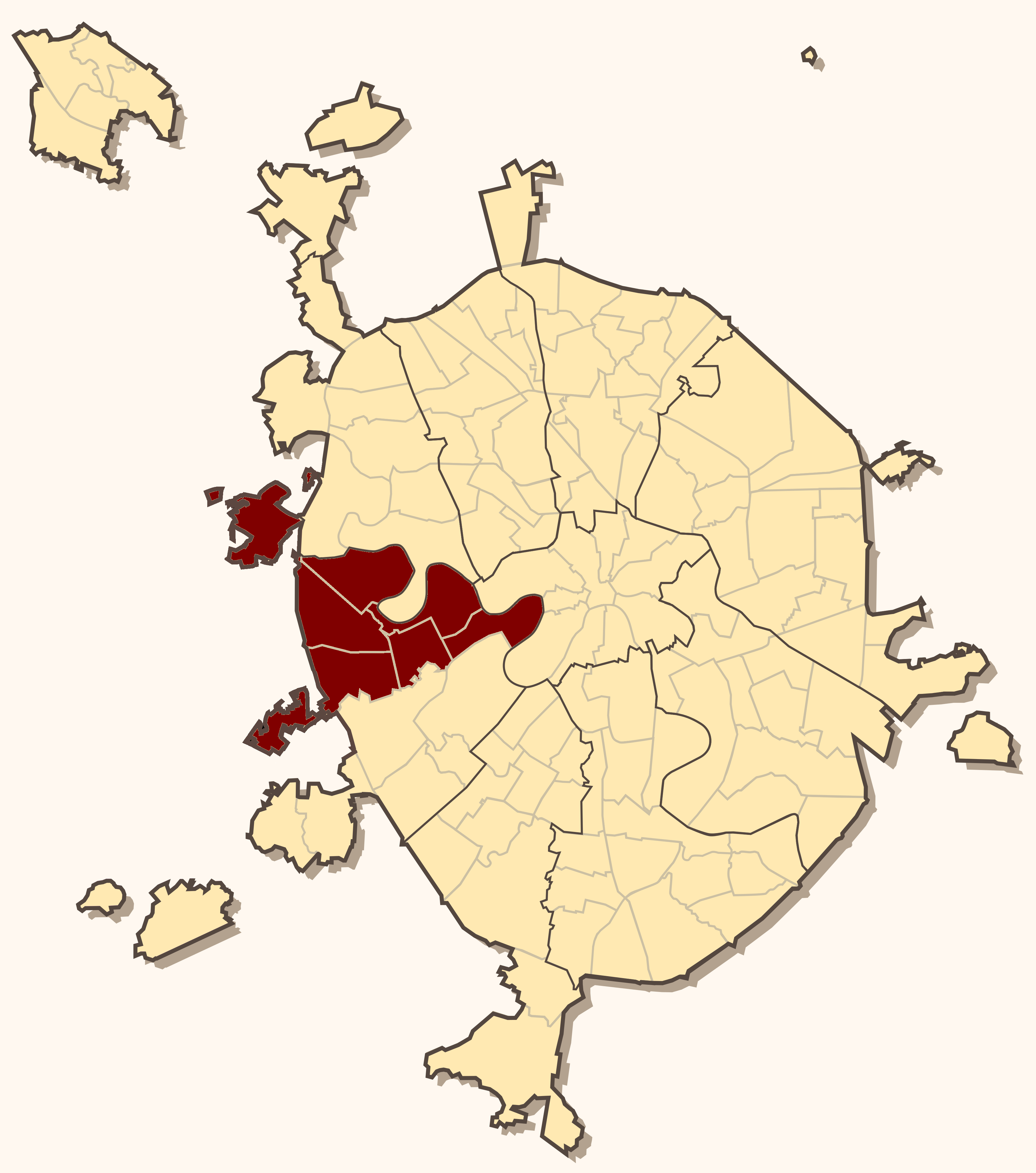 Map of Georgievskoe Blagochinie of Moscow